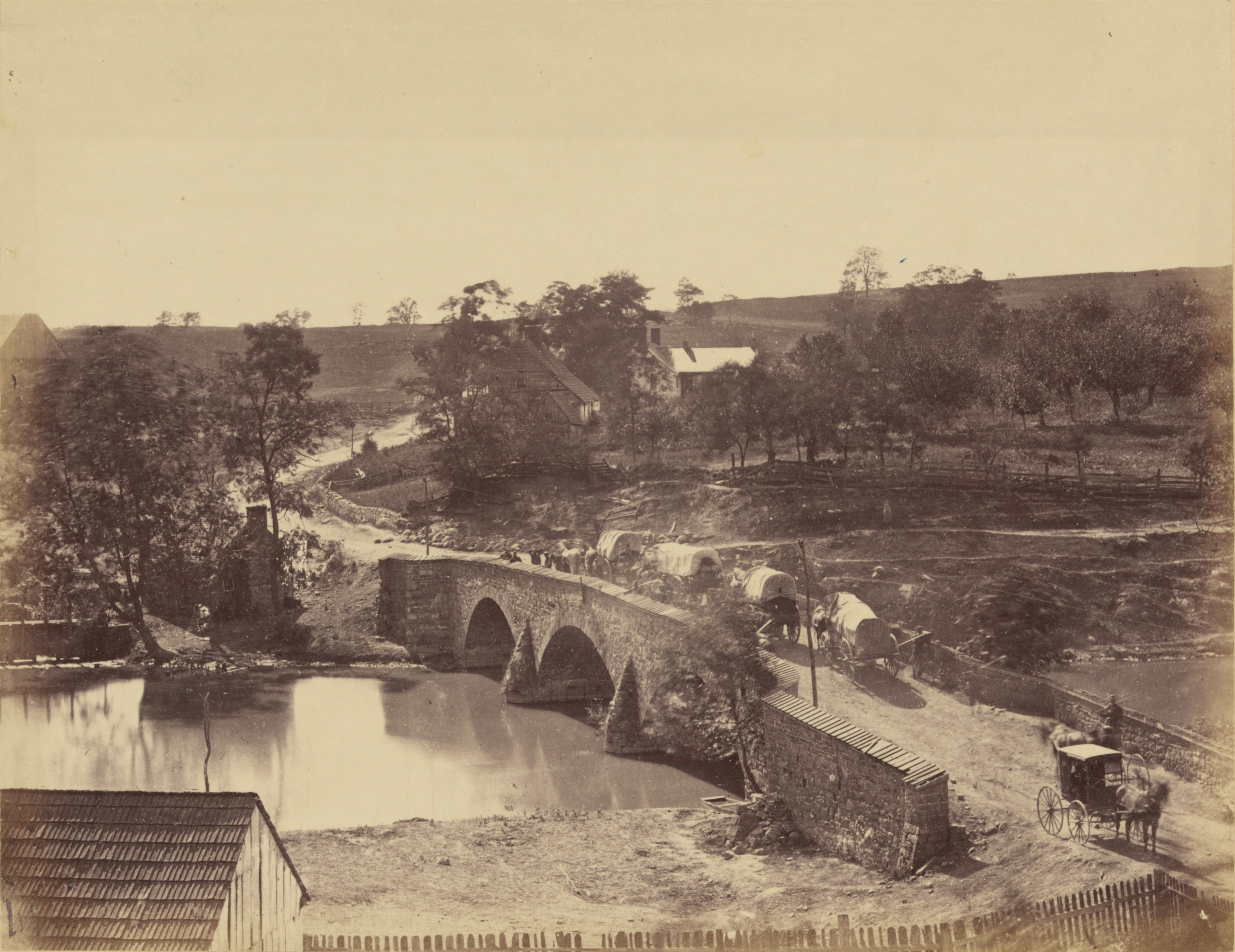 Burnside's Bridge (Antietam Bridge), near Antietam, Maryland, in autumn 1862. Site of the 'afternoon battle' of the Sept. 1862 Battle of Antietam. The caption on the original says "ALEX. GARDNER, Photographer, Entered according to act of Congress, in the year 1866, by A. Gardner, in the Clerk's Office of the District Court of the District of Columbia. 511 Seventh Street, Washington." The previous page says: "Antietam Bridge, Maryland." "This structure crosses Antietam Creek on the turnpike leading from Boonesboro to Sharpsburg, and is one of the memorable spots in the history of the war, although but little suggestive in its present sunny repose, of the strife which took place near it, on the day of the battle of Antietam. Traces of the engagement are evident in the overturned stone wall, the shattered fences, and down-trodden appearance of the adjacent ground. On the night of the 16th of September, the cavalry of the Army of the Potomac captured this bridge after a sharp fight, holding it until the infantry came up. The fire of our artillery, planted on the ridges near the bridge, was terrible, and at one time no doubt contributed principally to the success of our partially disordered lines in checking the headlong assaults of the enemy." "After Lee's second invasion of Maryland, which ended with the battle of Gettysburg, and the escape of his army into Virginia at Williamsport and Falling Waters, Gen. Meade had his headquarters for a number of days on a wooded ridge called the “Devil's Backbone,” situated near this stream, along which the Army of the Potomac was encamped. Very little now remains to mark the adjacent fields as a battle ground. Houses and fences have been repaired, harvests have ripened over the breasts of the fallen, and the ploughshare only now and then turns up a shot, as a relic of that great struggle."